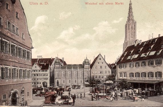 Weinhof Platz with the synagogue of Ulm (Germany) before its transformation in 1927